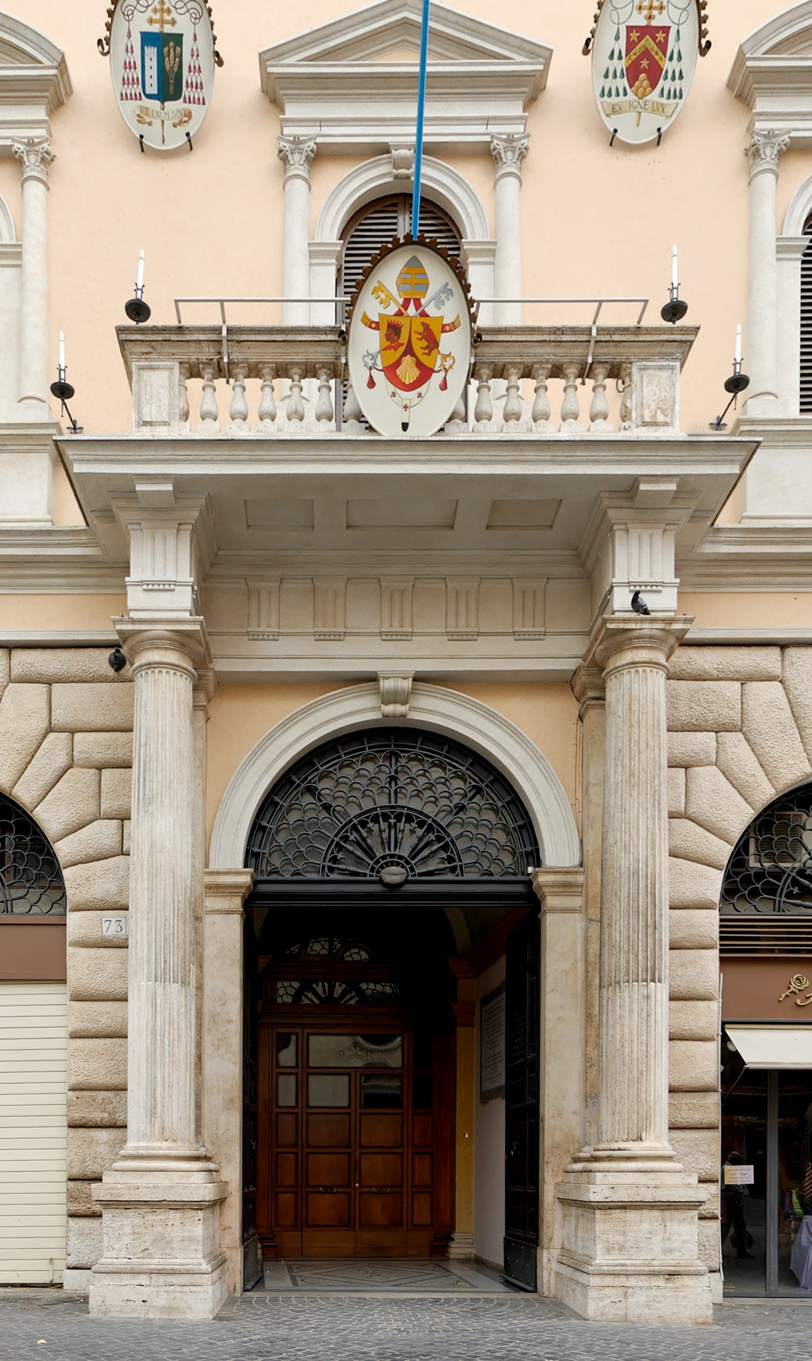 Entrance of the palace of the Ecclesiastical Academy (16th century). Piazza della Minerva, Rome, Italy.